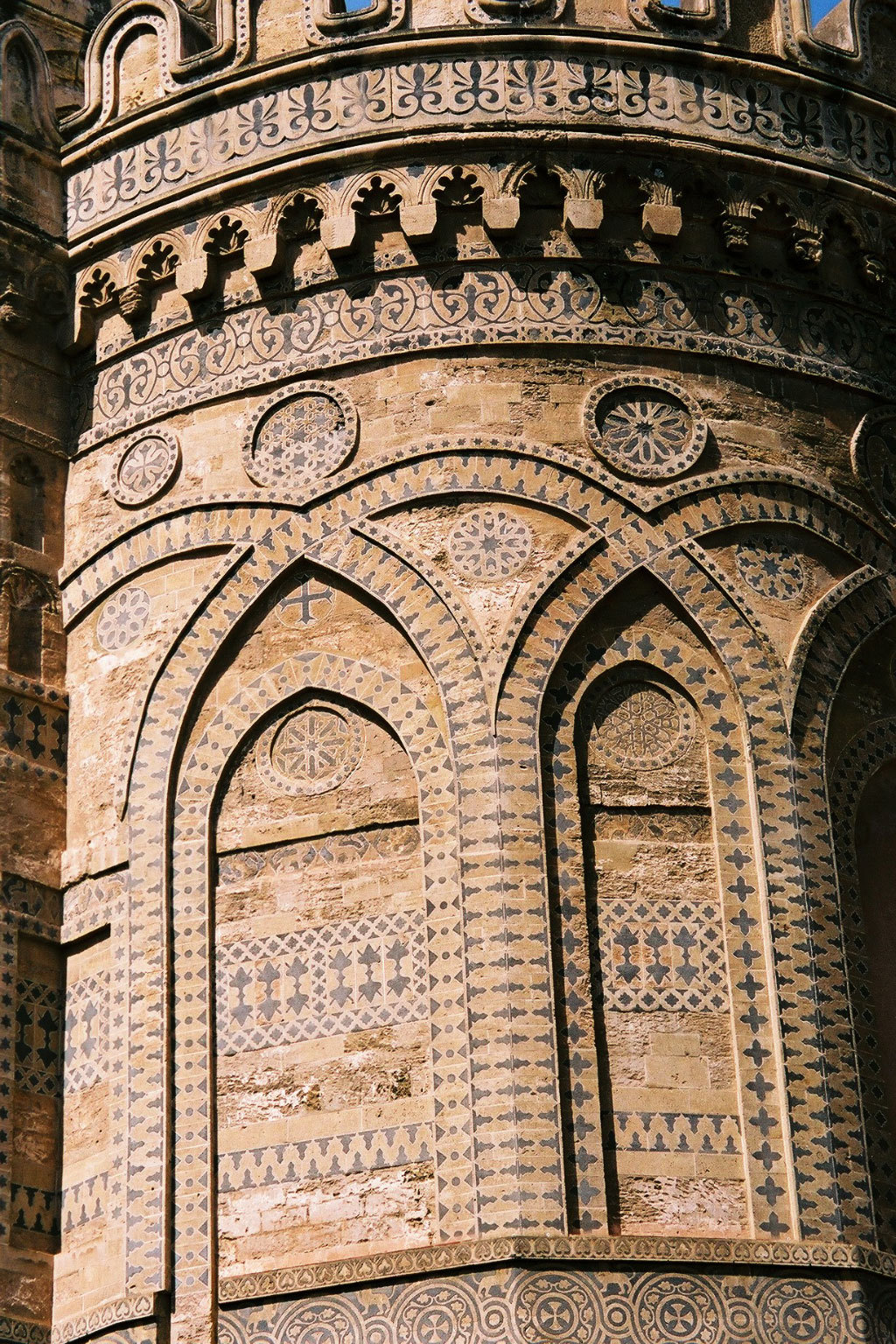 Cathedral of Palermo Detail view of the main apse